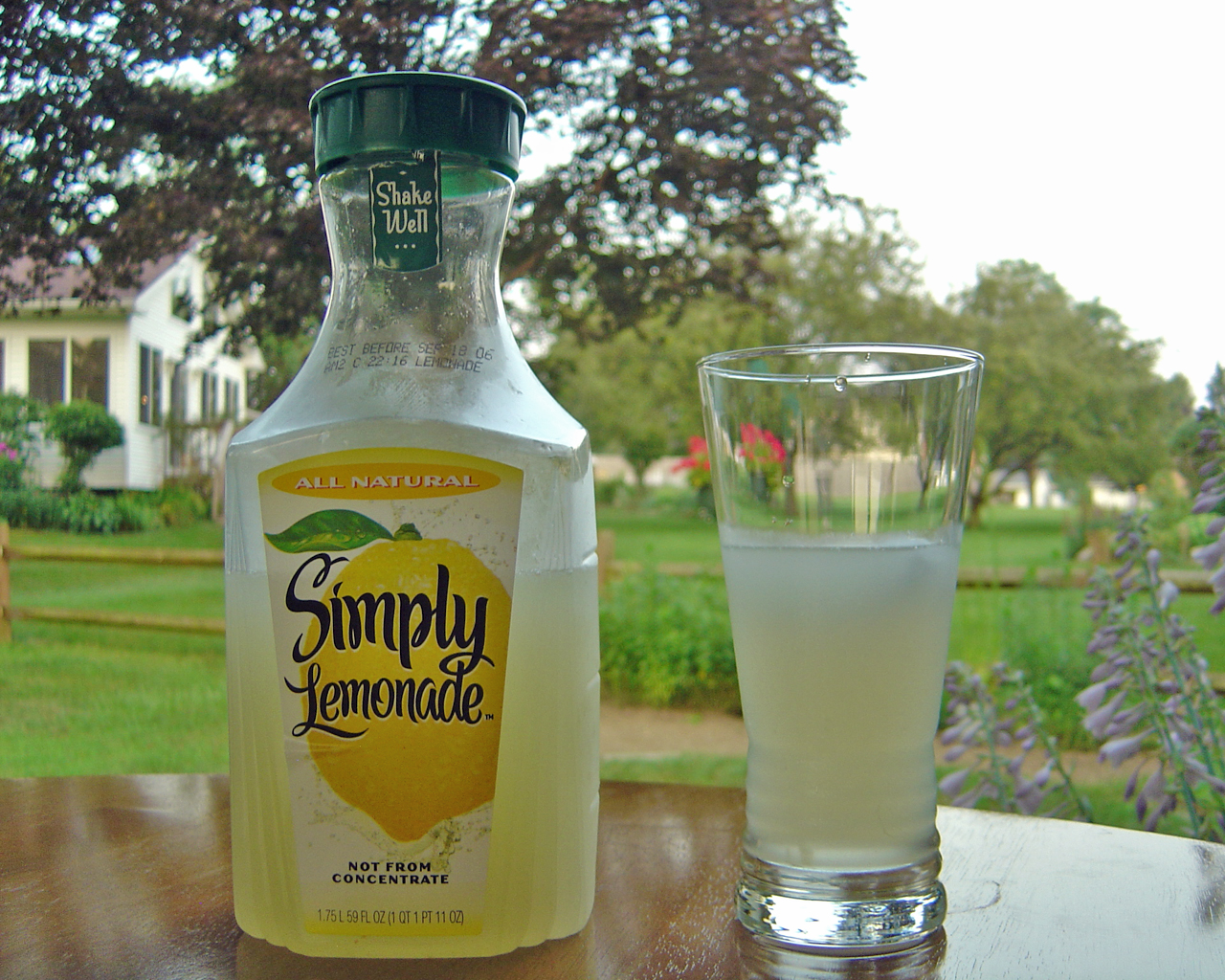 A bottle and a glass of "Simply Lemonade".